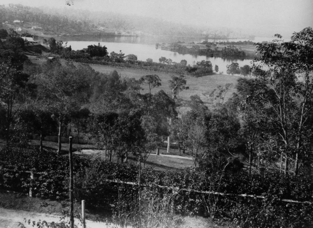 View from Cintra, Newstead, ca. 1875 View from Cintra towards the Brisbane River. Newstead House can just be seen on the top left. (Description supplied with photograph.).